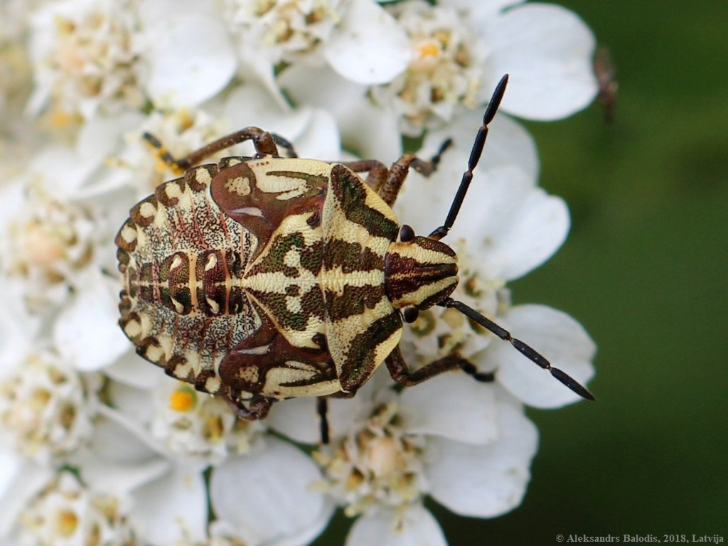 Carpocoris purpureipennis